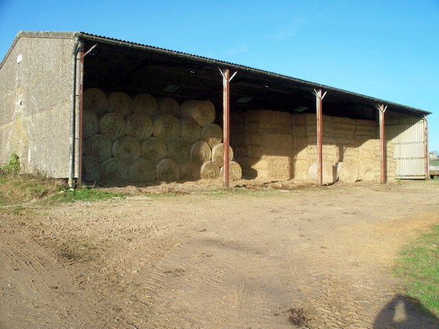 Dutch barn This barn is on Baker's Hill, adjacent to the footpath to Little Rollright.